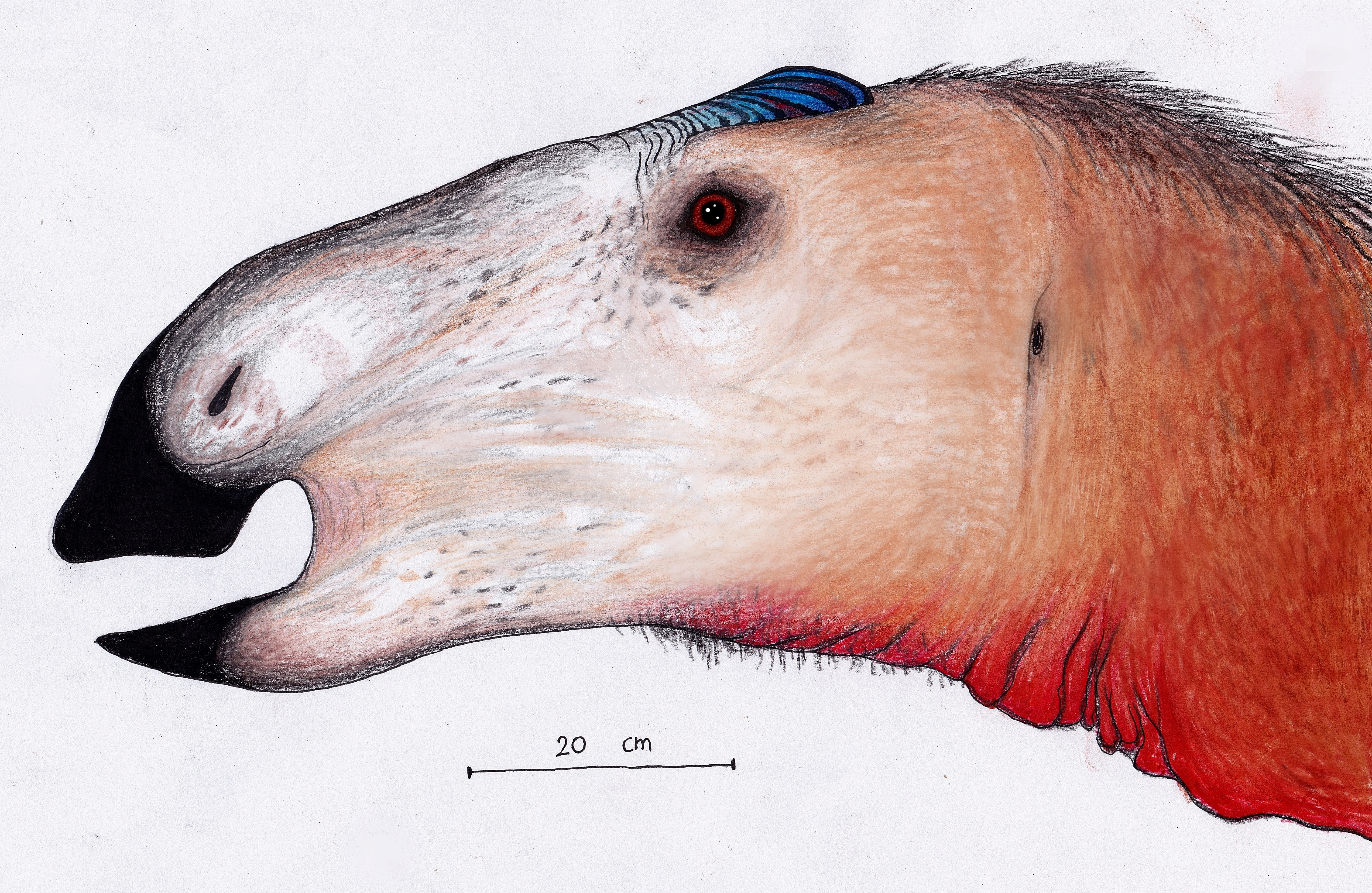 Life restoration